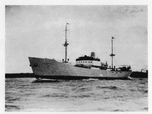 m/s Astri